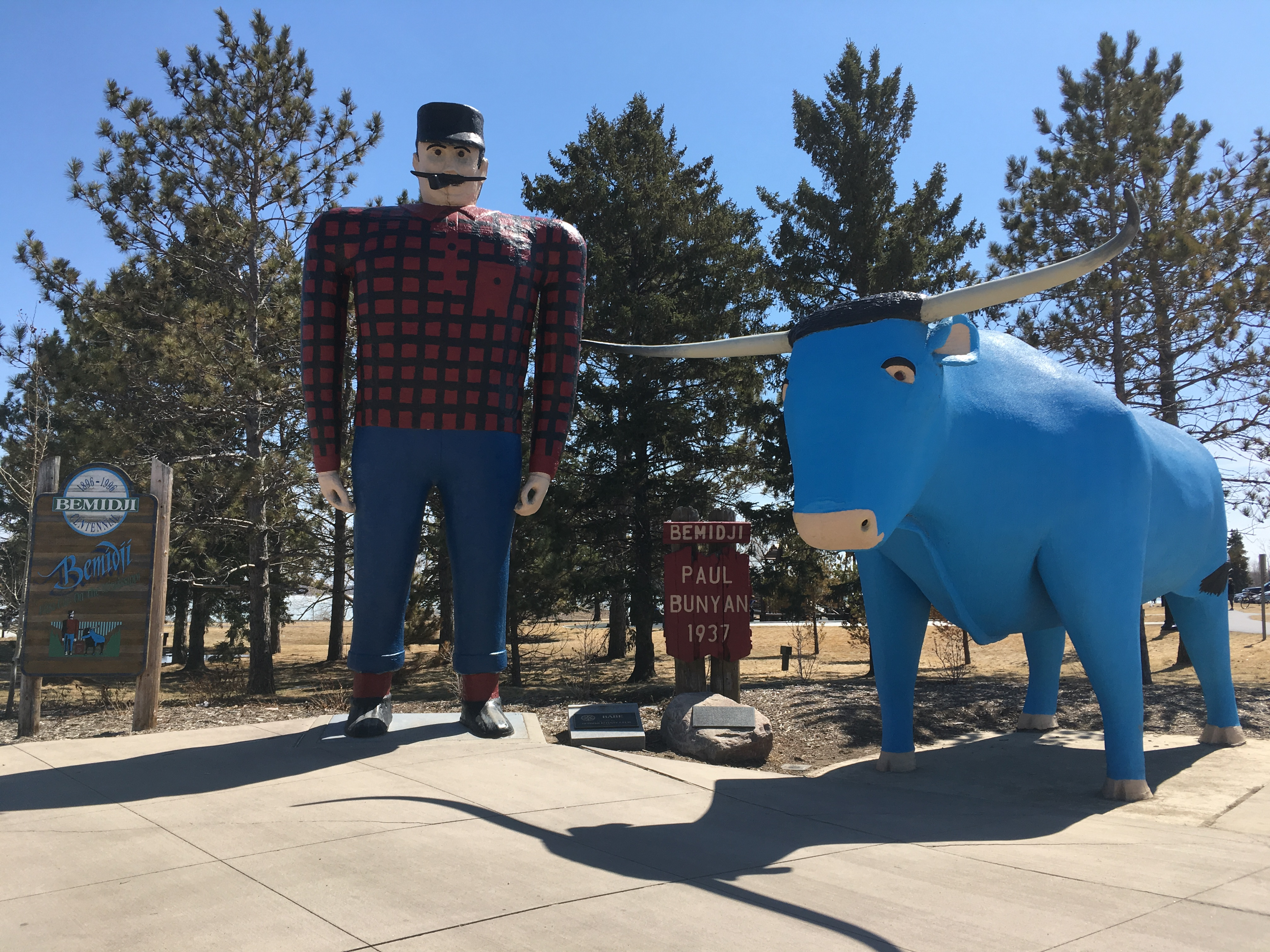 Paul Bunyan and Babe the Blue Ox stand near the south shore of Lake Bemidji.